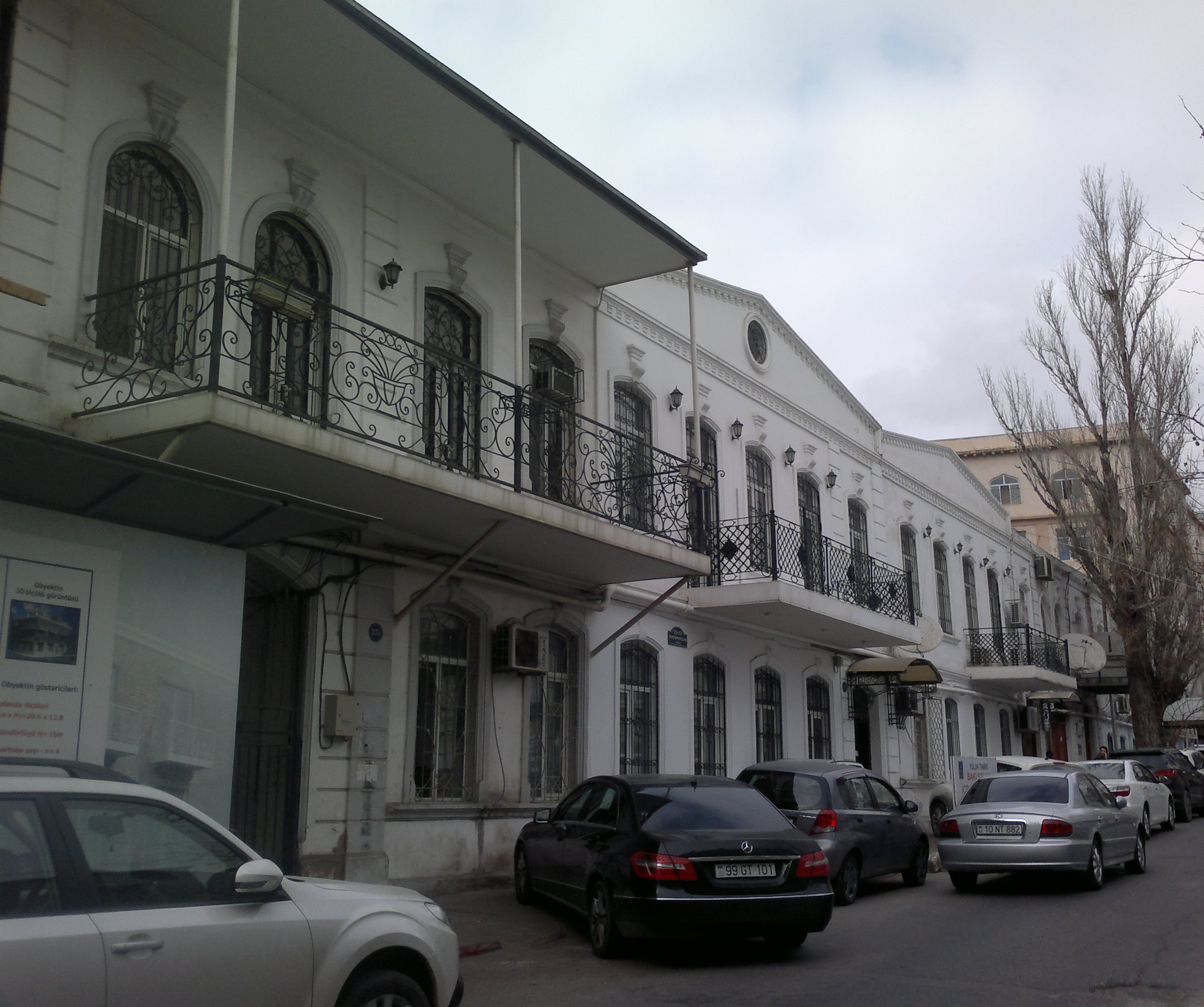 Building pn Rostropovichs Street 19. Mstislav Rastropovich üas born here in 1927.